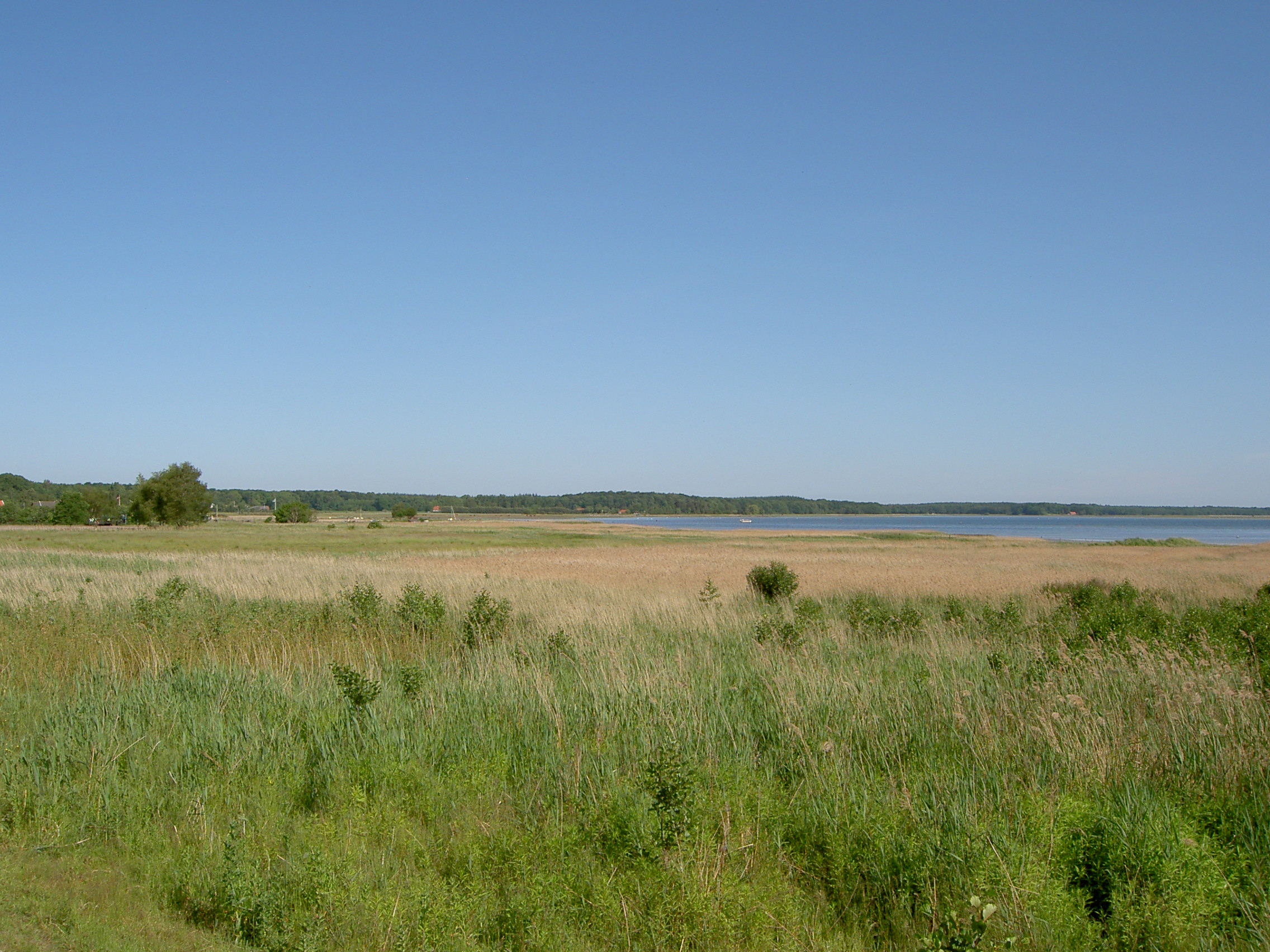 Roskildefjord at Jægerspris